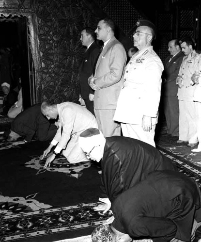 Jordanian Army Chief of Staff Radi Annab (standing front row in military uniform) and Egyptian President Gamal Abdel Nasser (standing to Annab's right) during Friday prayers in the last week of Ramadan.